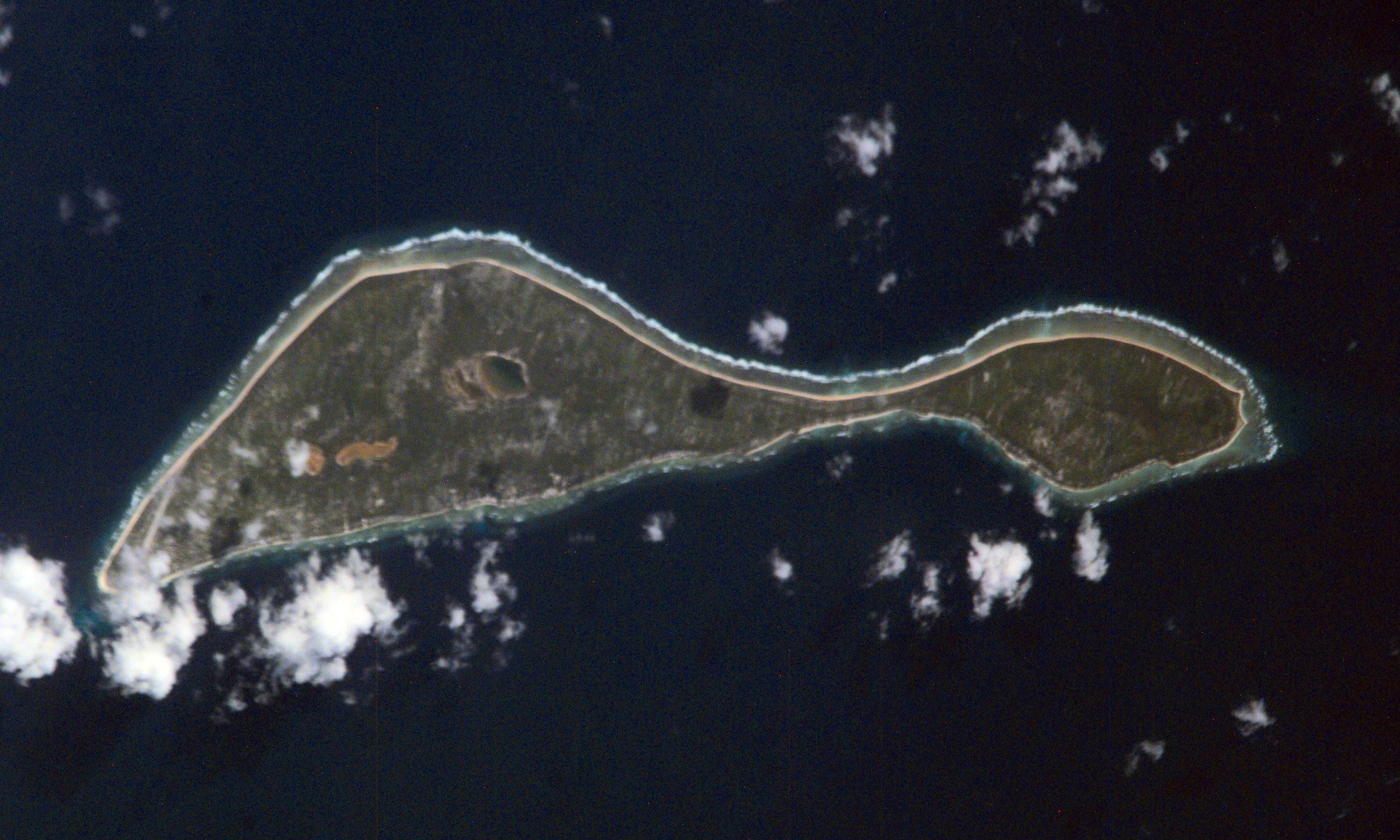 NASA astronaut image of Nikunau Island, Gilbert Islands, Kiribati